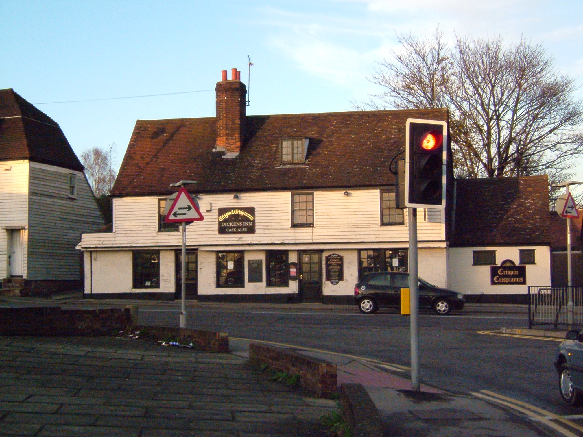 Crispin and Crispianus pub, London Road, Strood by Gun Lane Traffic Lights. The three buildings were on the 1863 Map, they are finished with Kentish shiplap weatherboarding.